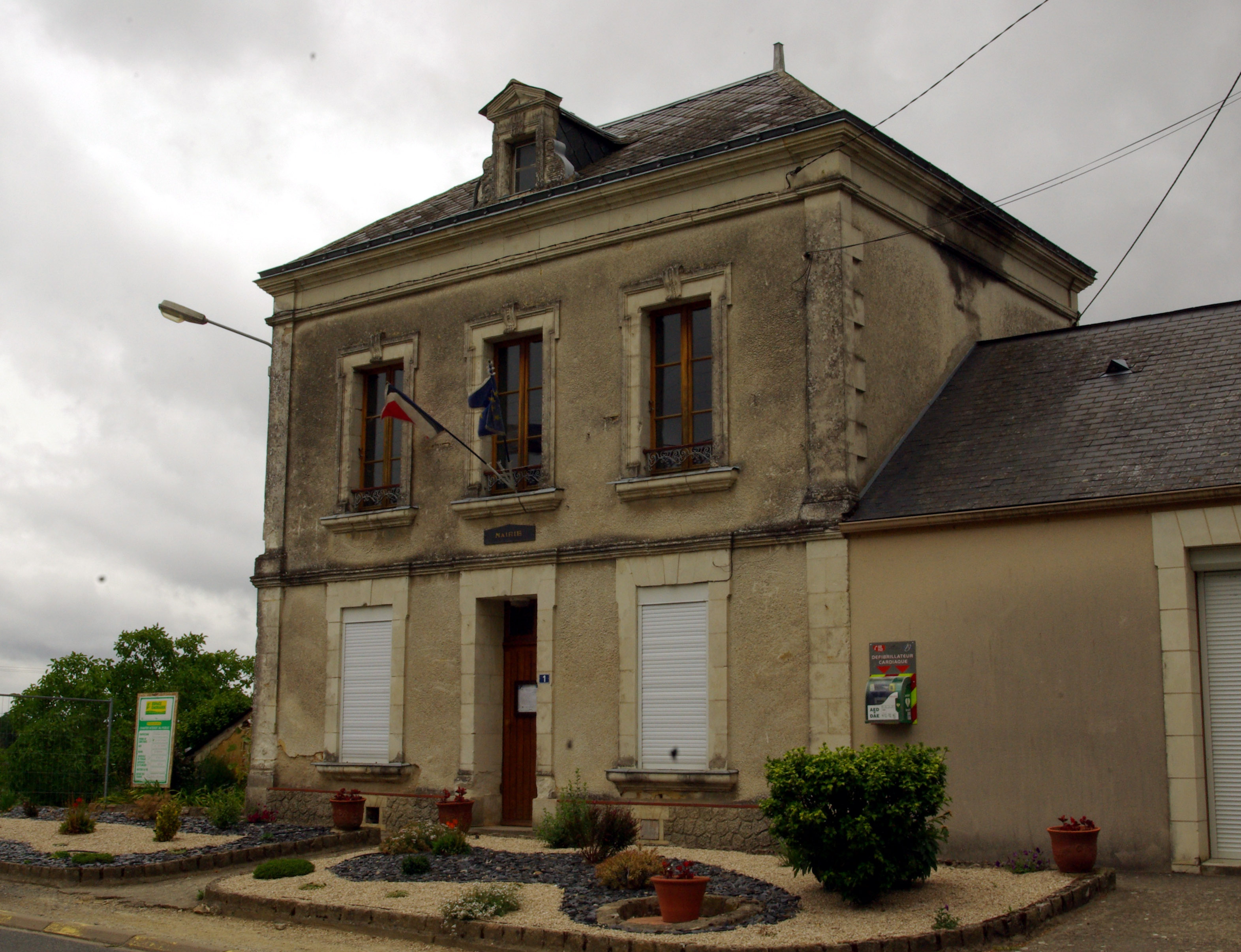 City Hall Échemiré